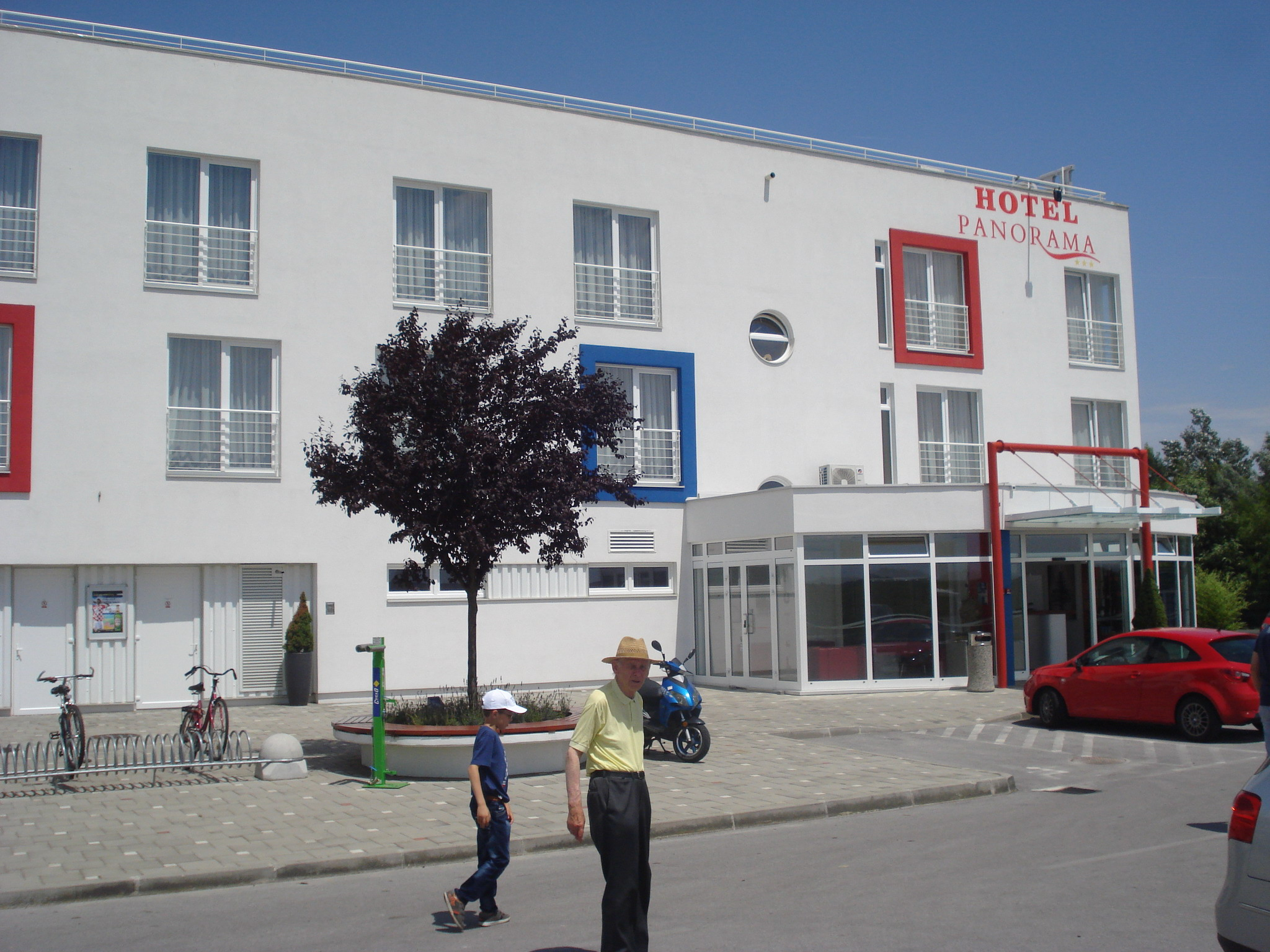 "Panorama" Hotel in Prelog, Međimurje County, Croatia - facade